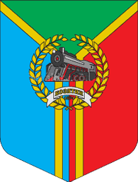 Coat of Arms of Kozyatyn